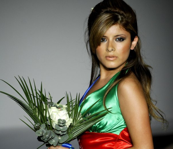 Azerbaijani flag during Sunrise in Baku Fashion Project by KPK Entertainment